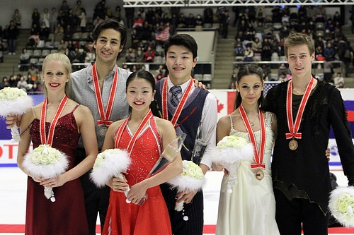 The Dance podium at the 2011 NHK Trophy. From left: Kaitlyn Weaver / Andrew Poje (2nd), Maia Shibutani / Alex Shibutani (1st), Elena Ilinykh / Nikita Katsalapov (3rd)